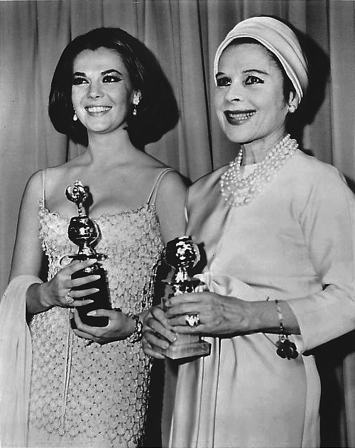 Natalie Wood and Ruth Gordon at the 23rd Golden Globe Awards. Wood received the Henrietta Award and Ruth Goldon was Best Supporting Actress. They appeared together in Inside Daisy Clover, a Warner Bros. release.